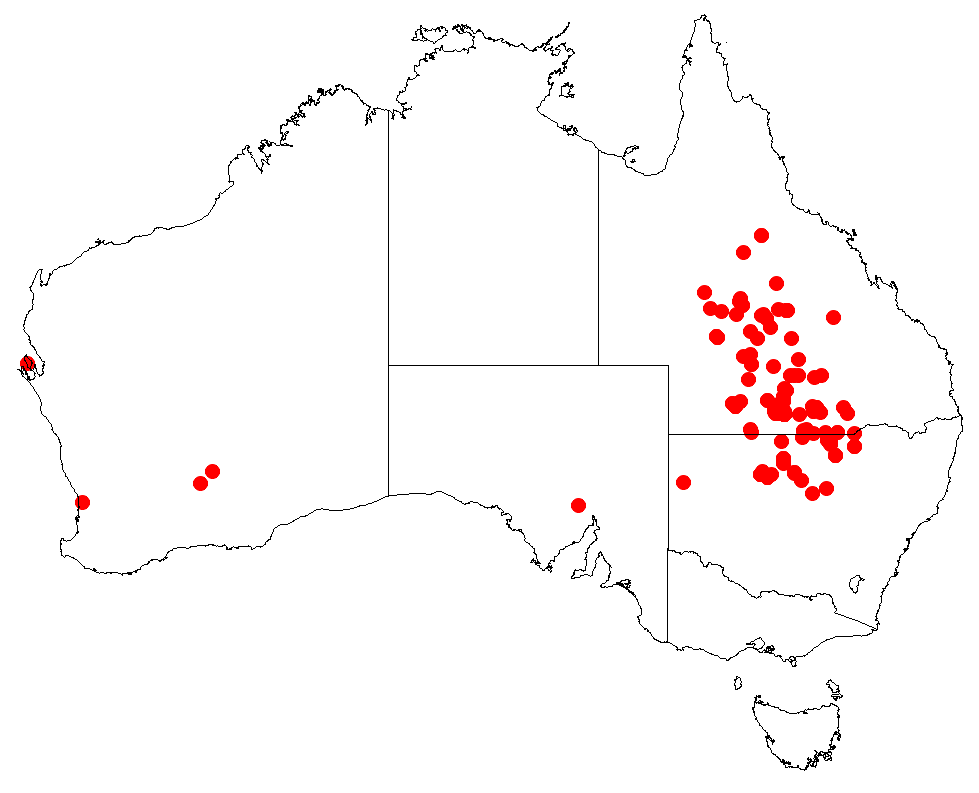 Lysiana linearifolia occurrence data downloaded from AVH, 30 September 2018